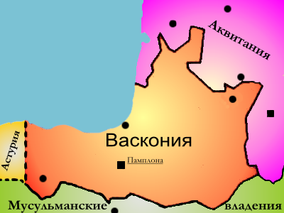 Map of the Duchy of Vasconia (red) under Eudes the Great (c. 710-740), when it was in personal union with the Duchy of Aquitaine.